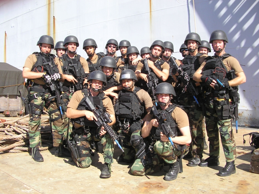 U.S. Navy VBSS Team (from USS Gary [FFG-51])